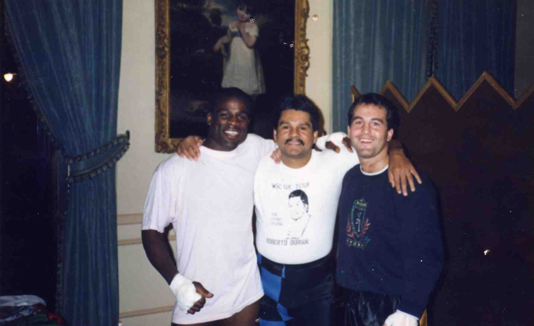 Errol Christie with Roberto Duran in the eighties - amateur photo on Christie's camera